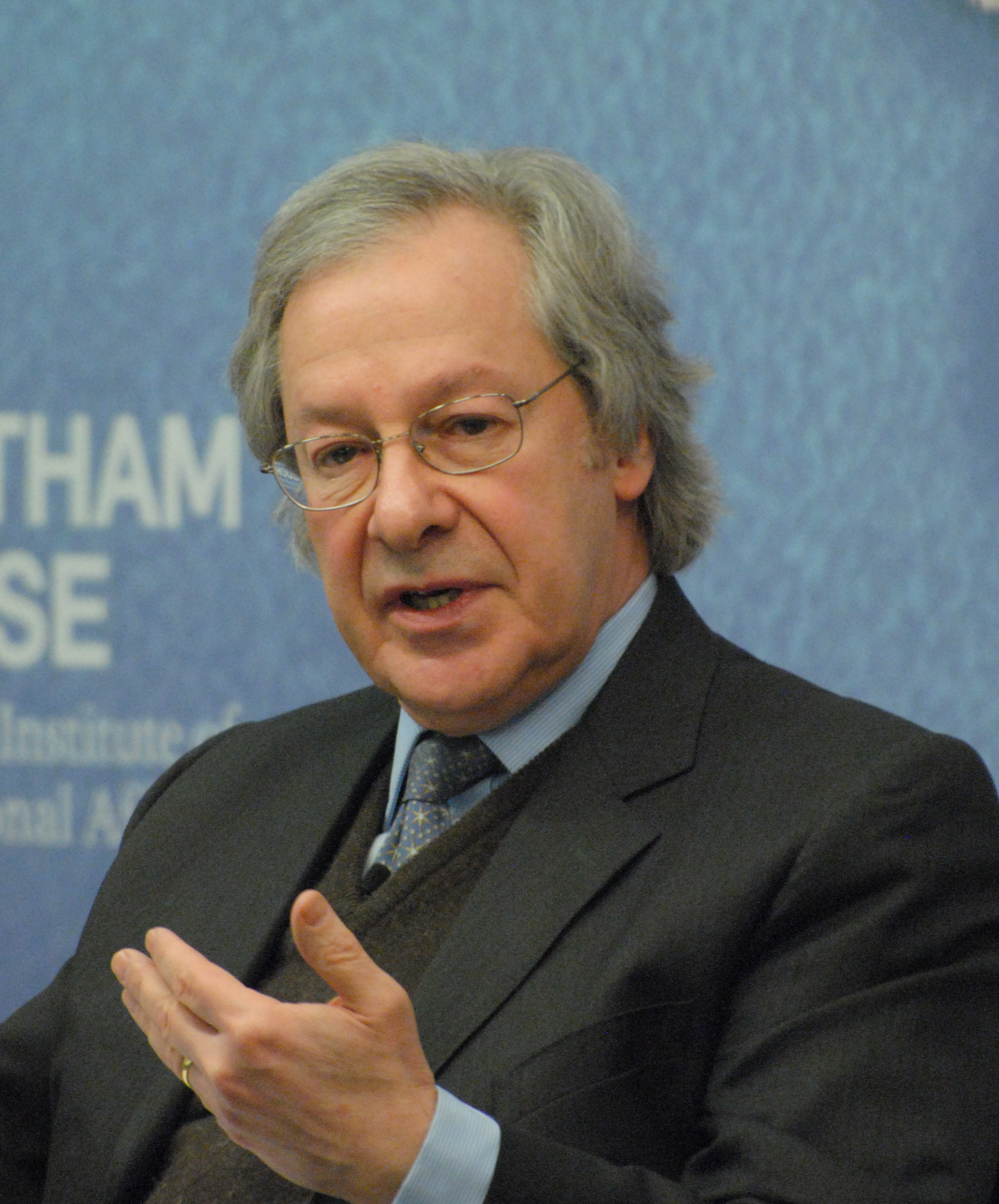 Steven Erlanger speaking during the debate "Challenges for Obama's Final Two Years" at Chatham House, 5 February 2015.